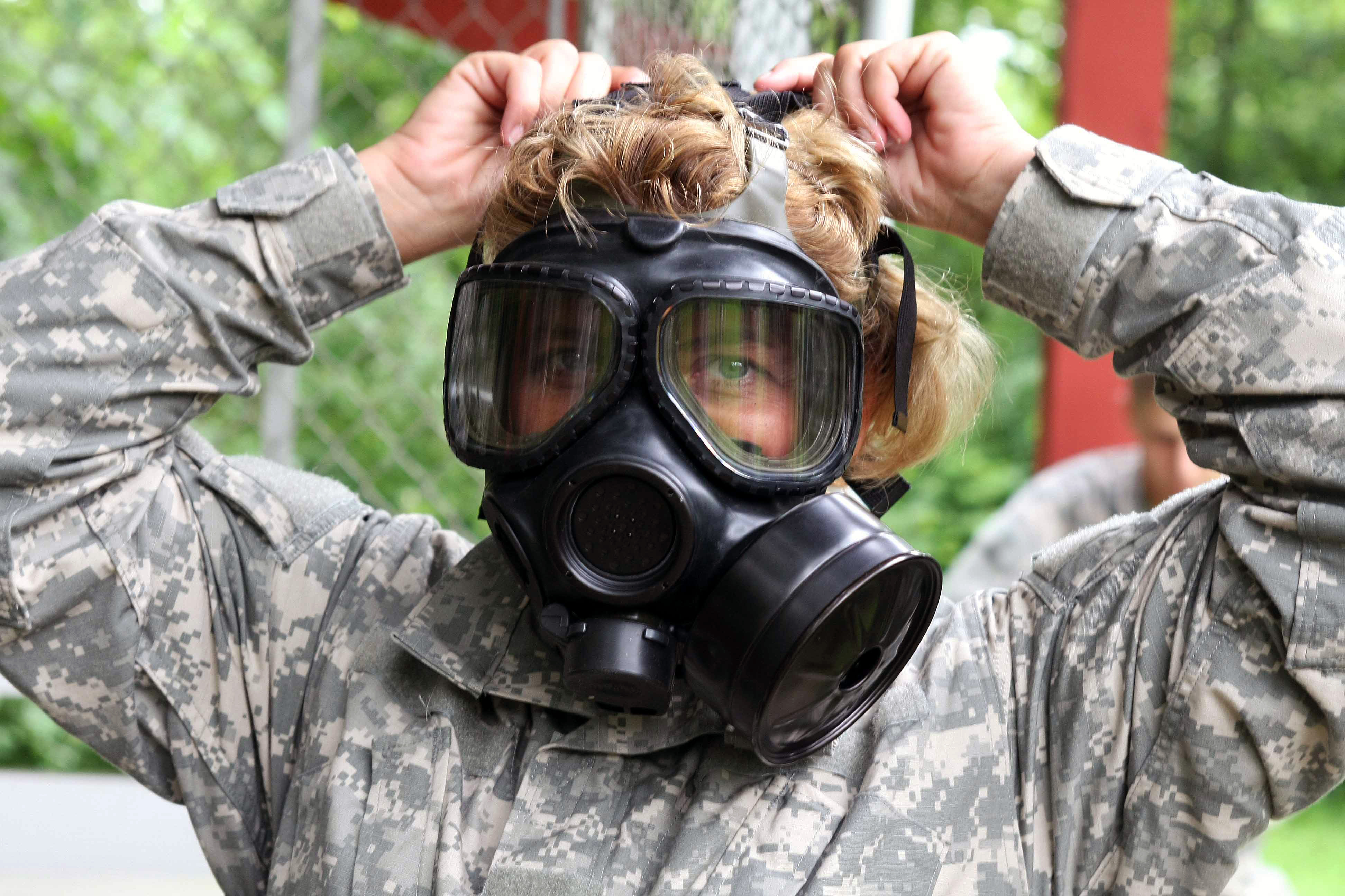 Pfc. Holly Horned, a member of the 438th Chemical Company, 81st Troop Command, Indiana Army National Guard, adjusts her gas mask before entering a gas chamber during a nuclear, biological and chemical warfare training exercise at Camp Atterbury, Ind., June 15, 2010. U.S. Army photo by Sgt. Joseph Rivera Rebolledo, 120th Public Affairs Detachment